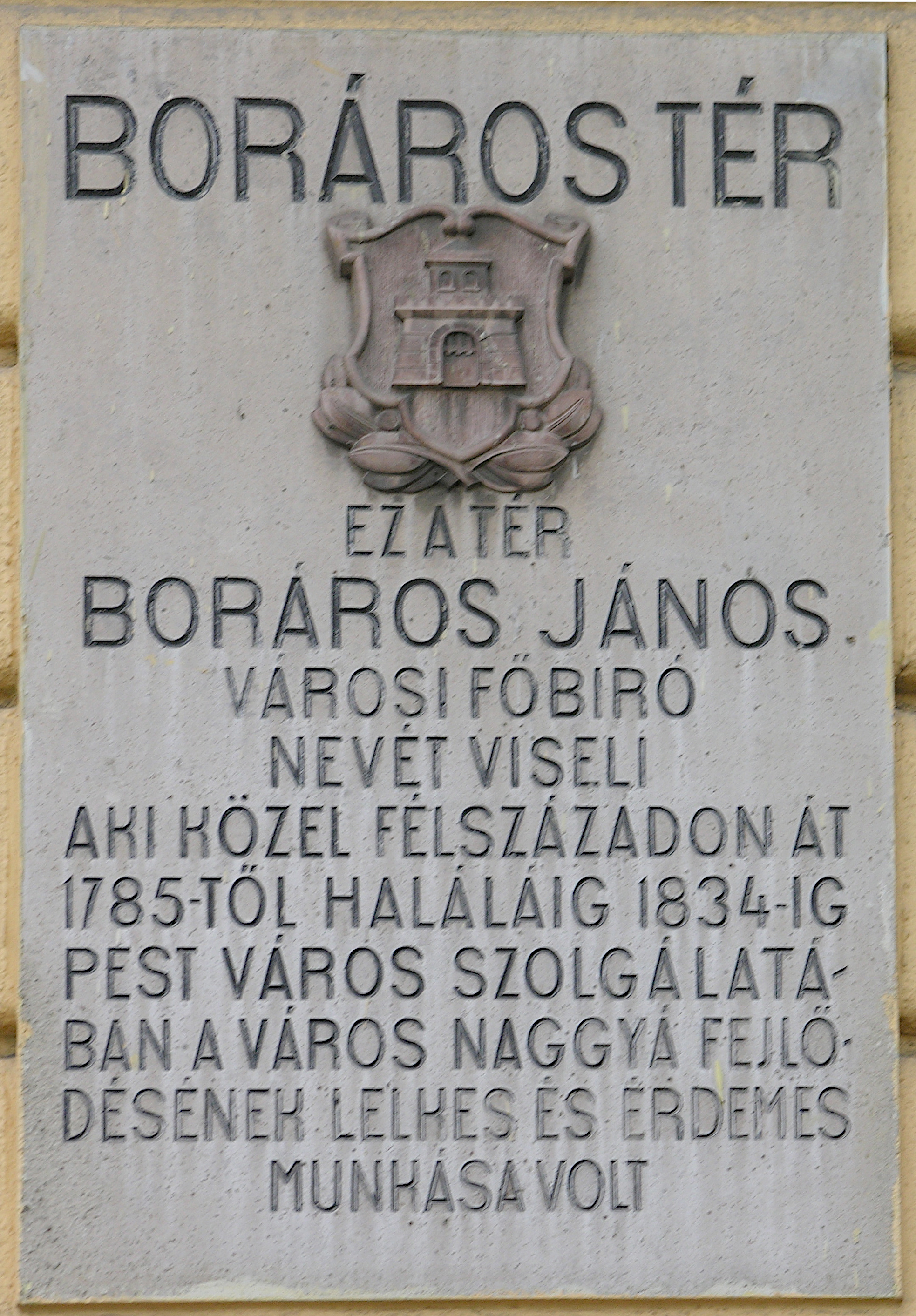 Commemorative plaque of János Boráros in Budapest District IX, Ferenc körút 2-4 (Boráros Square No 4)